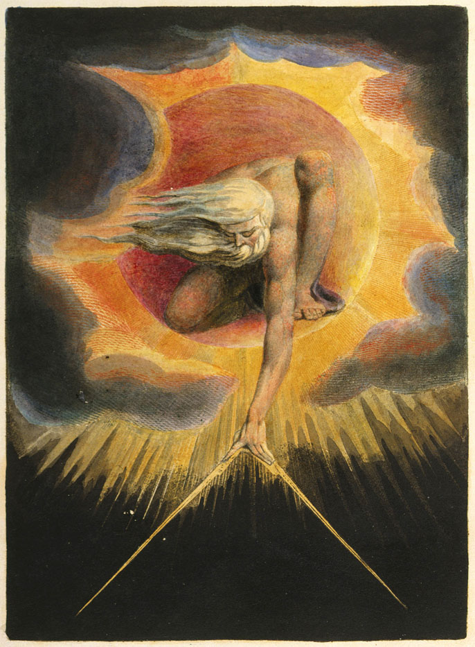 Europe a Prophecy copy D 1794 British Museum object 1